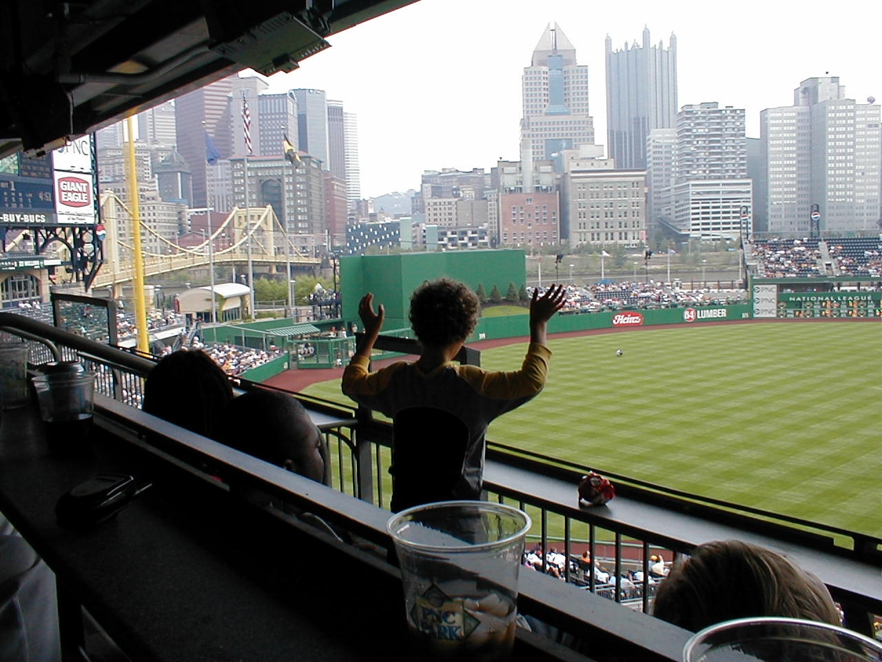 11:32, 31 December 2004 . . Jon144k (1280x960, 570 KB) (View of Pittsburgh's Golden Triangle from PNC Park. This photo was shot by me (jon144k) on 07/18/2004.)